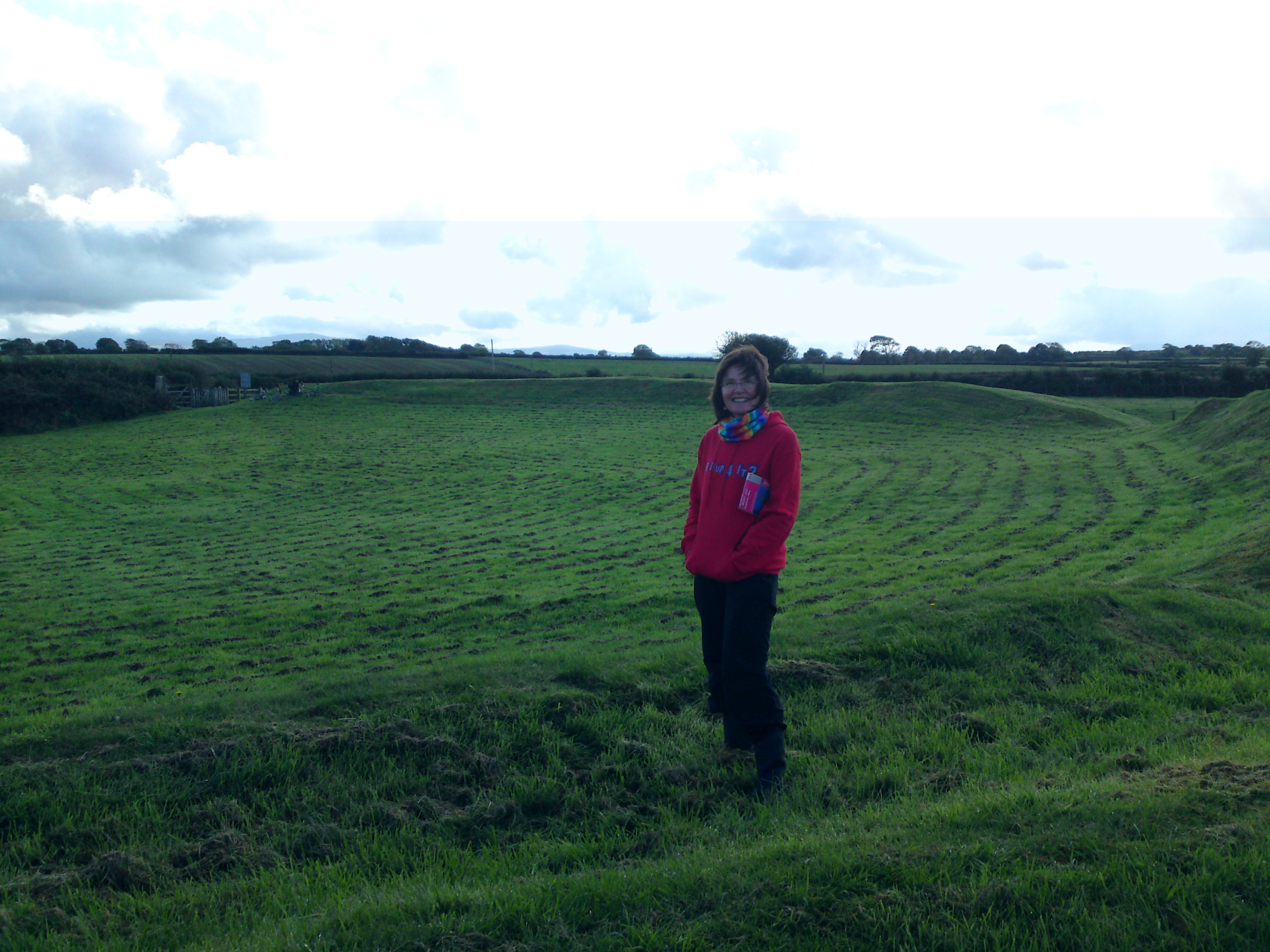 Castell Bryn Gwyn, view from the bank across the central space